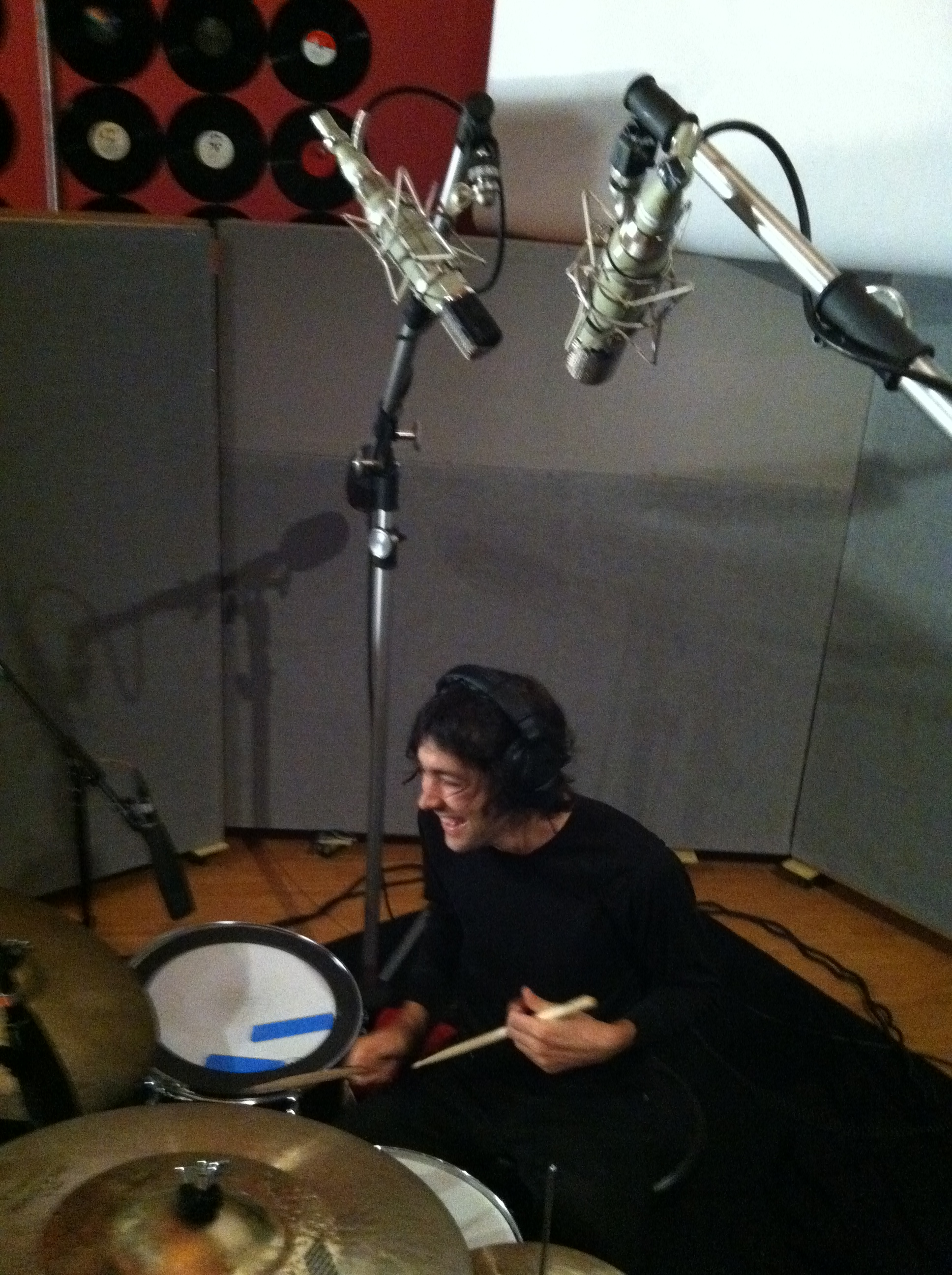 Darkness's Maxi Single set to release on April 17th 2012 thru Bright Antenna Records Tony Cupito on Wikipedia